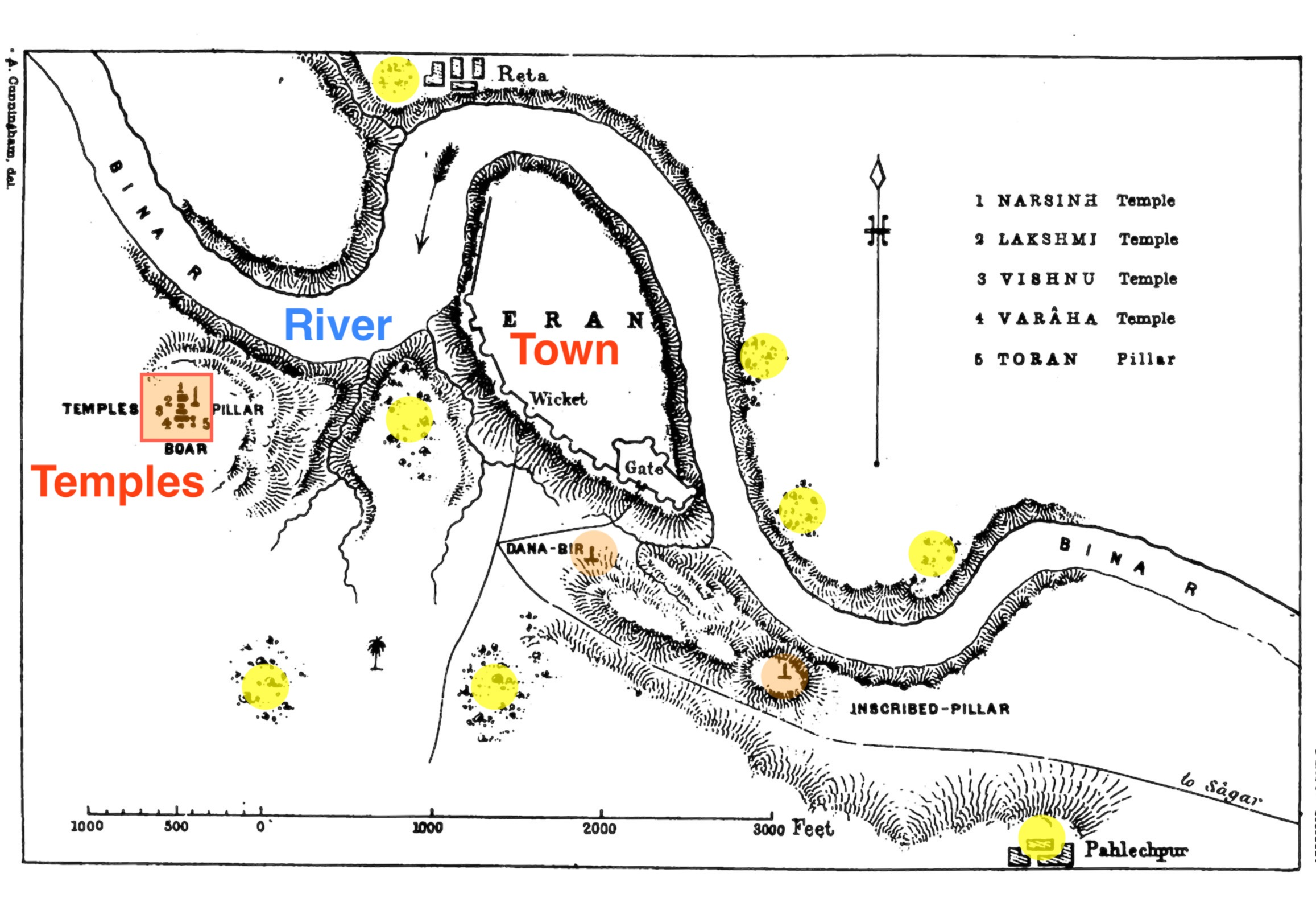 Eran is an ancient city mentioned in Buddhist and Hindu texts. It was a major coin minting center in ancient India. A capital of a region during the Gupta Empire rule in 3rd through 5th centuries CE, it built many temples and monuments. Of these a few have survived into the 21st century. The site is situated on the south bank of Bina River. The main group of ancient temples and pillars are located to the west of the town. There are additional monuments and archaeological sites around the town, marked above in yellow.